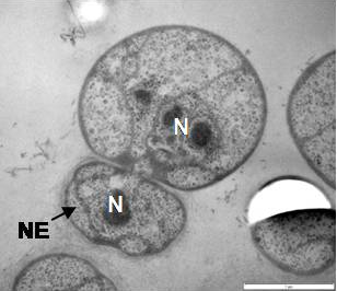 Electron micrograph of the bacterium Gemmata obscuriglobus, a planctomycete noted for its highly complex membrane morphology in which a central region of DNA may be enclosed by a membrane by analogy to the eukaryotic cell nucleus. Here the bacterium is in the process of dividing by budding. Labels indicate the nucleoid (N) of the mother (larger) and daughter (smaller) cells, and the nucleoid envelope (NE) of the daughter cell, which is not yet fully formed. Scale bar = 1μm. This image is cropped from Figure 4D of this paper: Lee KC, Webb RI, Fuerst JA. (2009) The cell cycle of the planctomycete Gemmata obscuriglobus with respect to cell compartmentalization. BMC Cell Biology 2009, 10:4 .